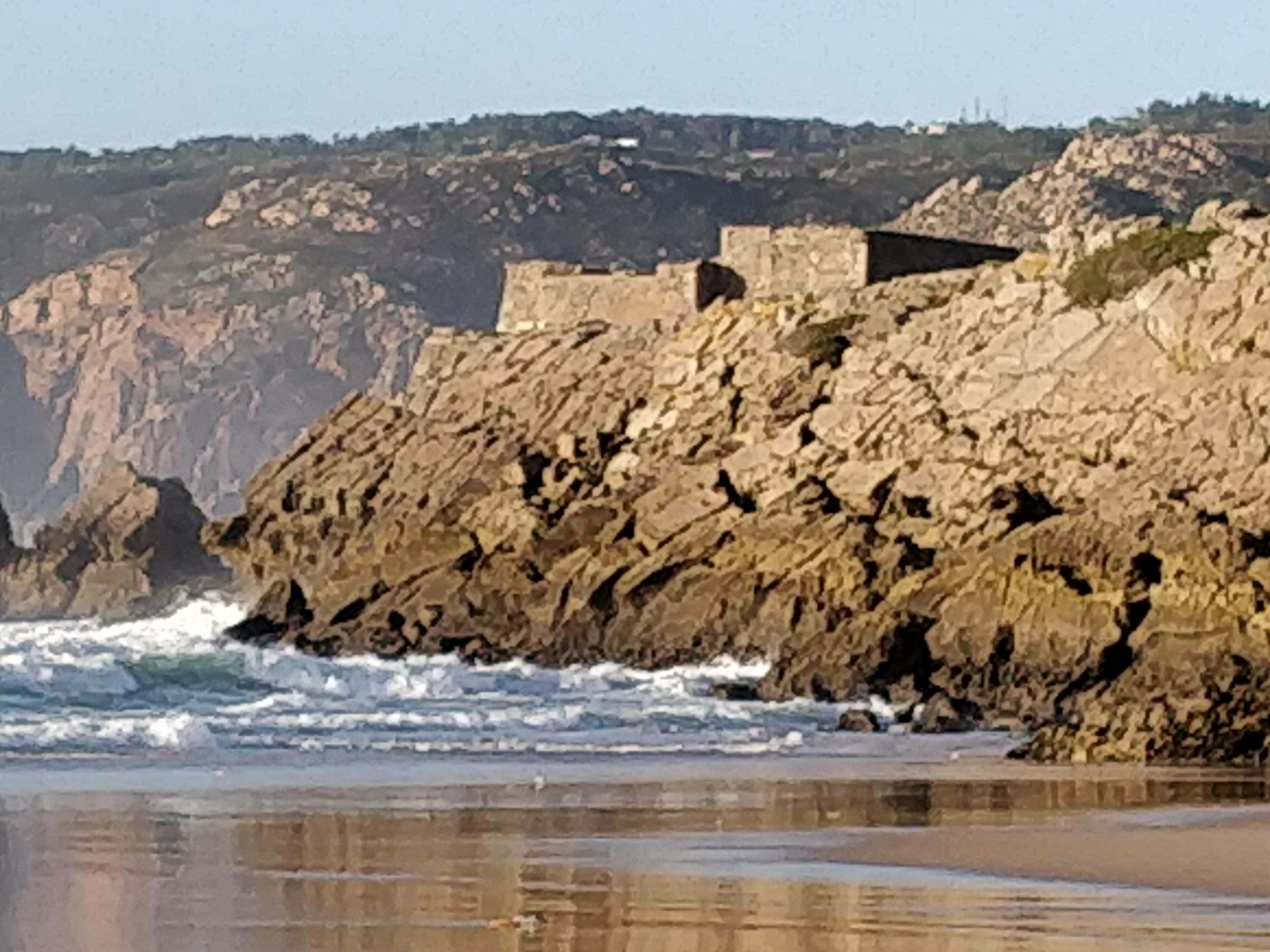 View of the Fort of Guincho, Portugal, from Guinch Beach